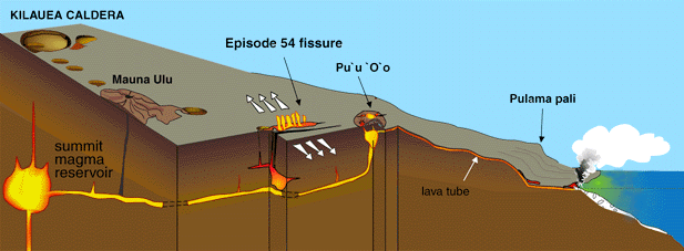 Cutaway view of the east rift zone of Kīlauea Volcano, Hawaiʻi. This simplified cutaway view (not to scale) of Kilauea Volcano shows the pathway of molten rock during the eruption of Pu‘u ‘Ō‘ō located on the east rift zone about 20 km from the caldera. Molten rock moves from the magma reservoir beneath the caldera through the east rift zone to Pu‘u ‘Ō‘ō. When molten rock erupts as lava from Pu‘u ‘Ō‘ō, it flows either onto the surface or through a lava-tube system 10-11 km to the sea. During episode 54 (January 30, 1997), lava erupted from [Napau Crater about 4 km uprift from Pu‘u ‘Ō‘ō. The rift zone widened about 1.8 m in Napau and 36 cm about 2 km uprift, as magma forced a pathway to the surface. Chemical studies of lava samples from episode 54 indicate that two separate and distinct bodies of magma, stored in the rift zone near Napau Crater for many years, supplied lava for the eruptive activity.